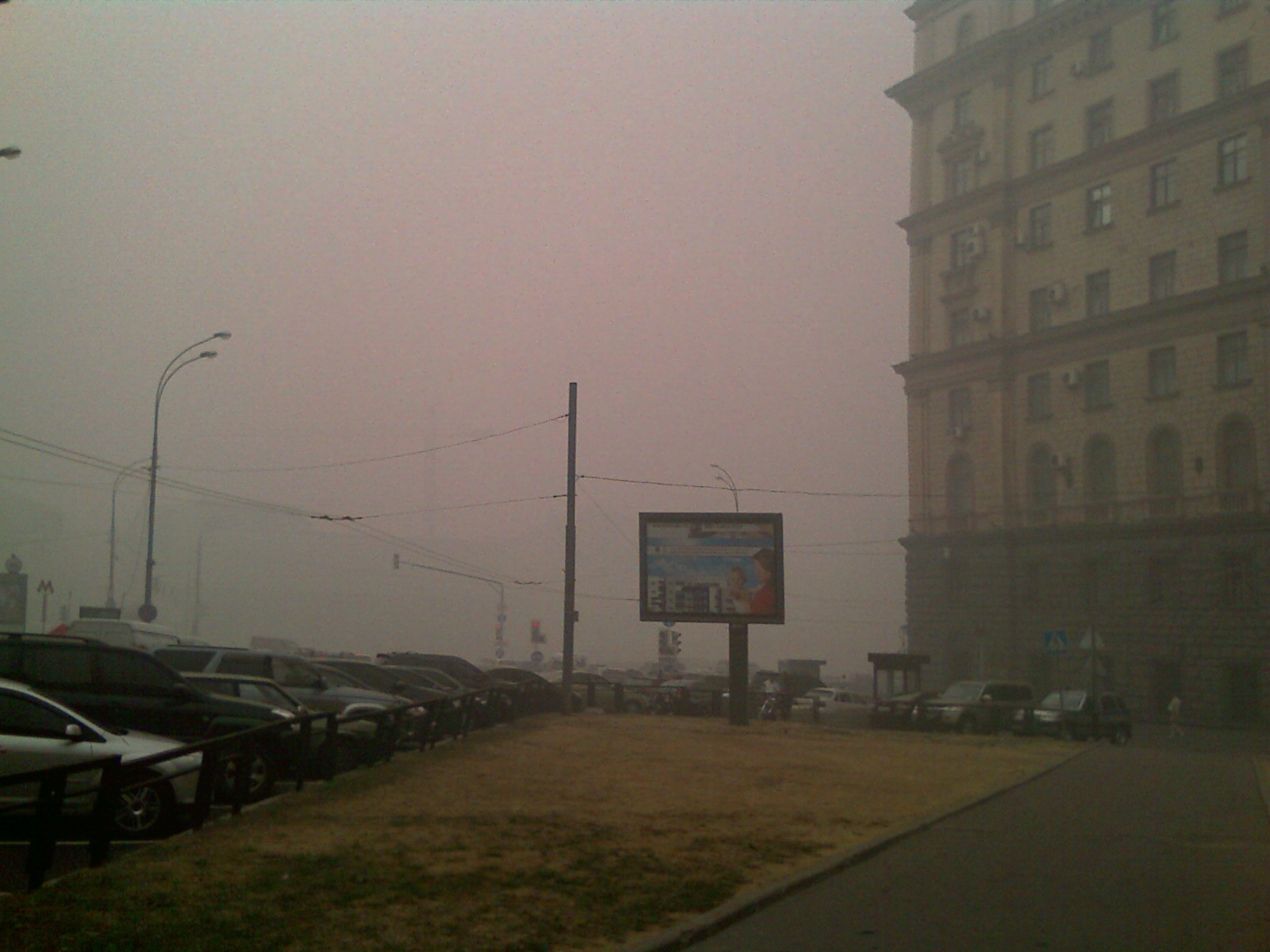 Smog in Moscow August 2010 Lubyanka